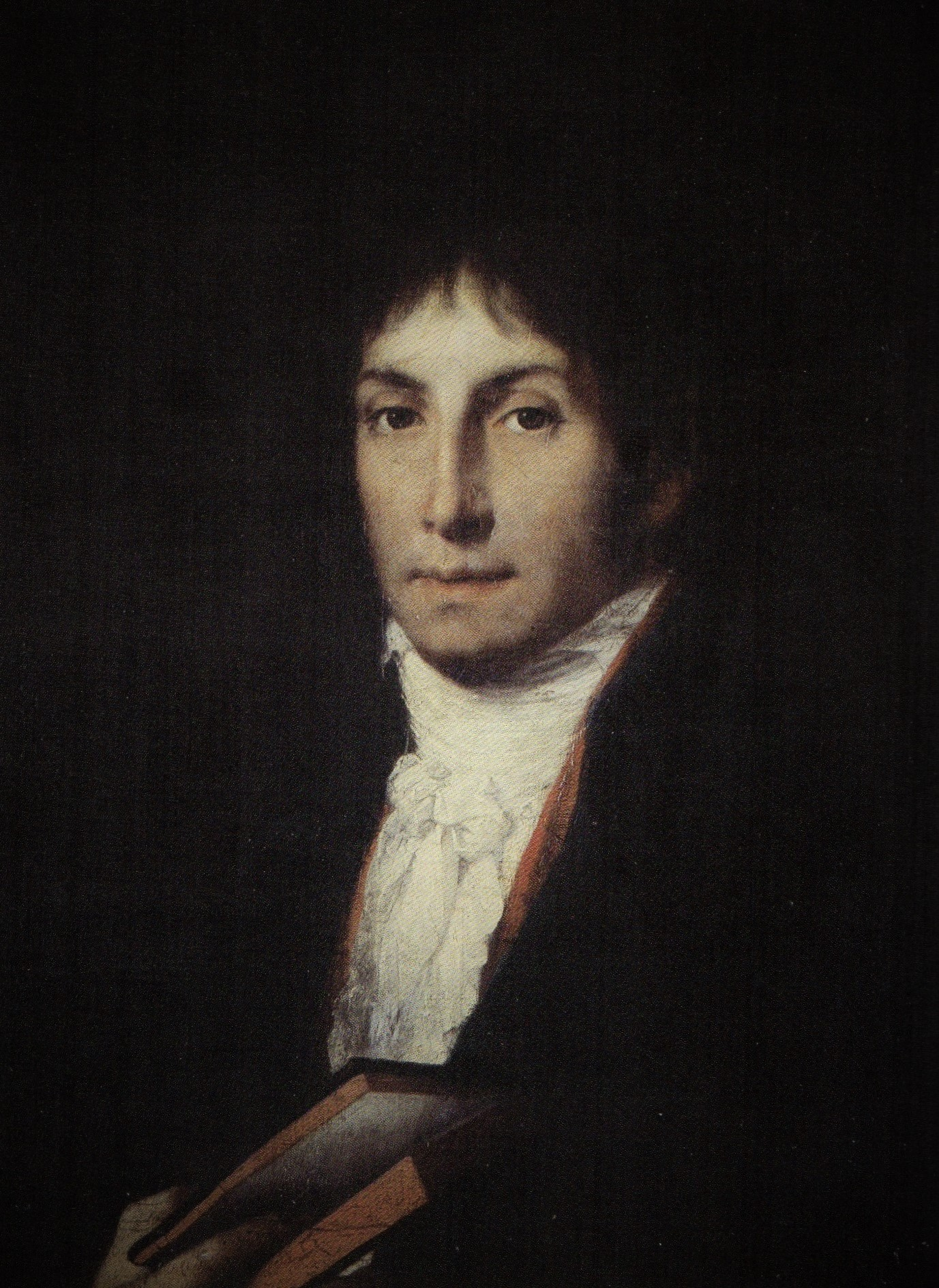 italian patriot Giuseppe Leonardo Albanese. "E' vestito alla repubblicana, a modo della Convenzione: cravatta bianca con gran fiocco, panciotto rosso e il cilestro dell'abito. Un incarnato vivace, una tinta bianca ma del mezzodì, una fisionomia aperta, uno sguardo dolce, un sorriso benigno e leale." (Marino D'Ayala)